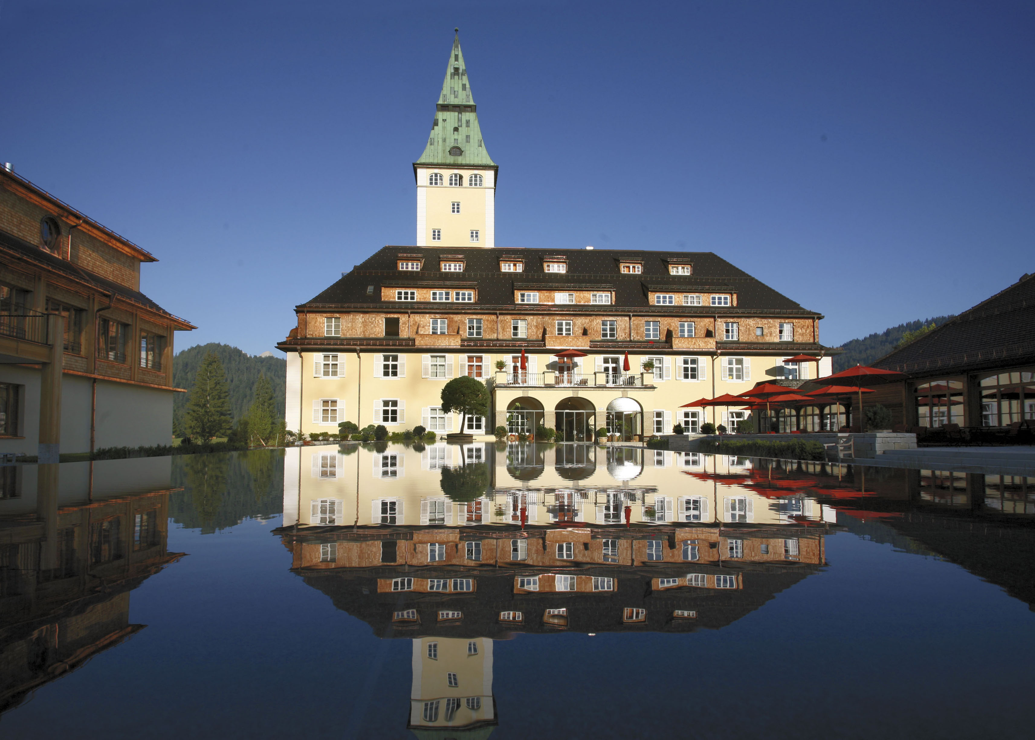 Schloss Elmau main entrance